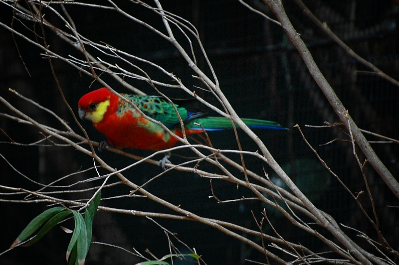 Western Rosella, Perth Zoo, 2009.